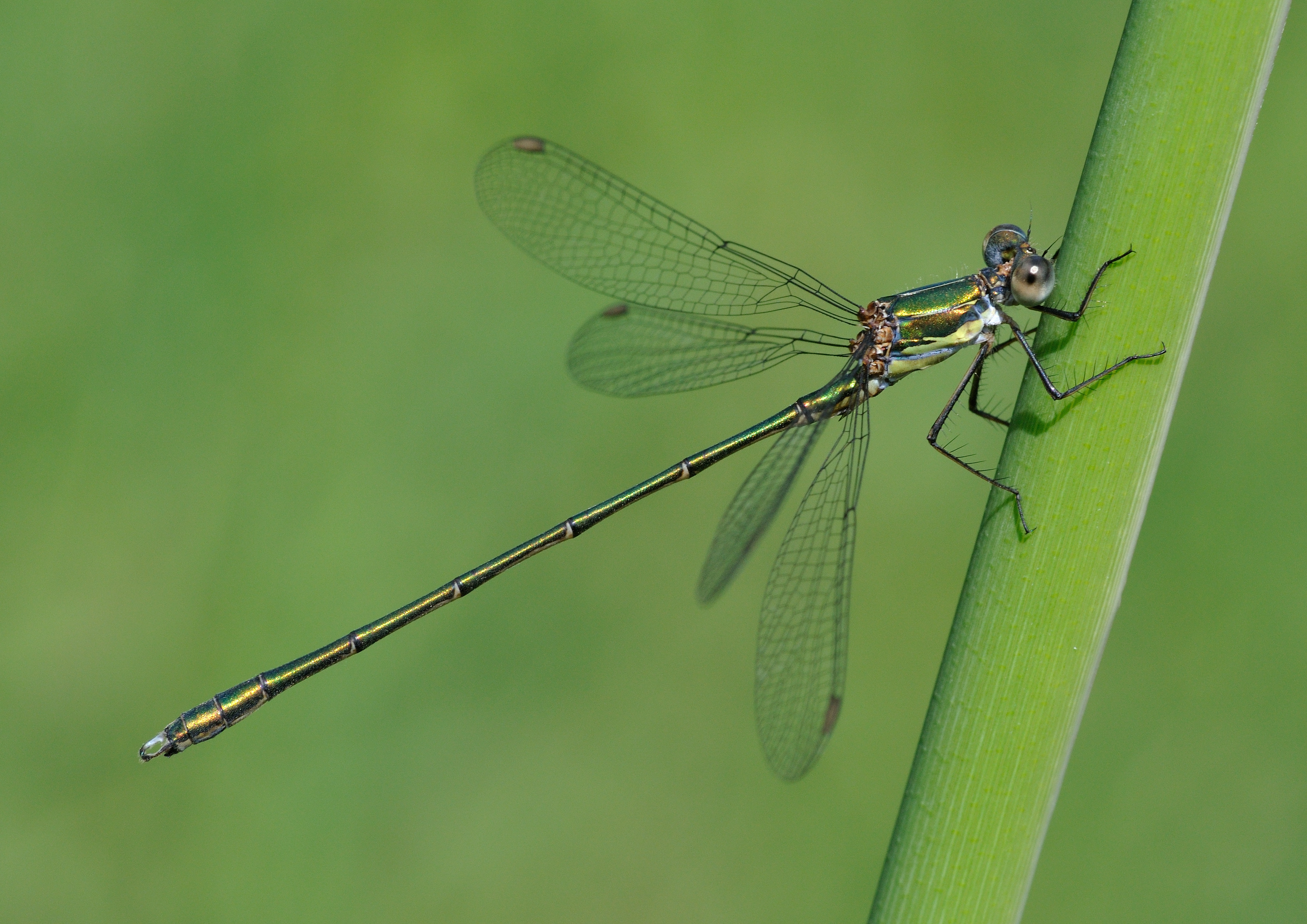 Male Willow Emerald Damselfly (Chalcolestes viridis) at a retention basin in Ahlen, Germany.